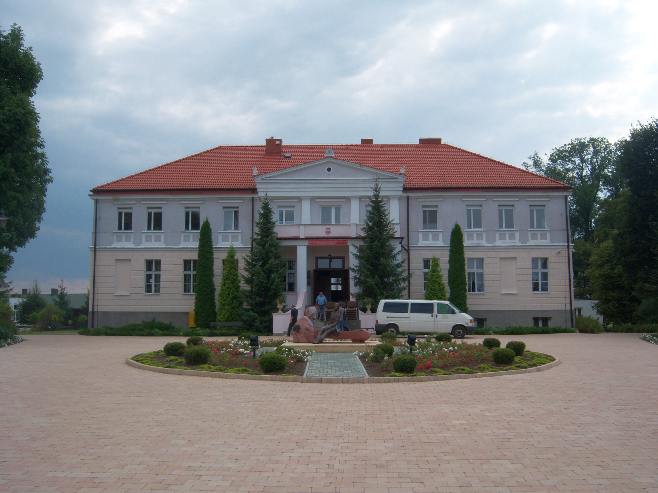 Bronikowski's Palace in Żychlin of 1821